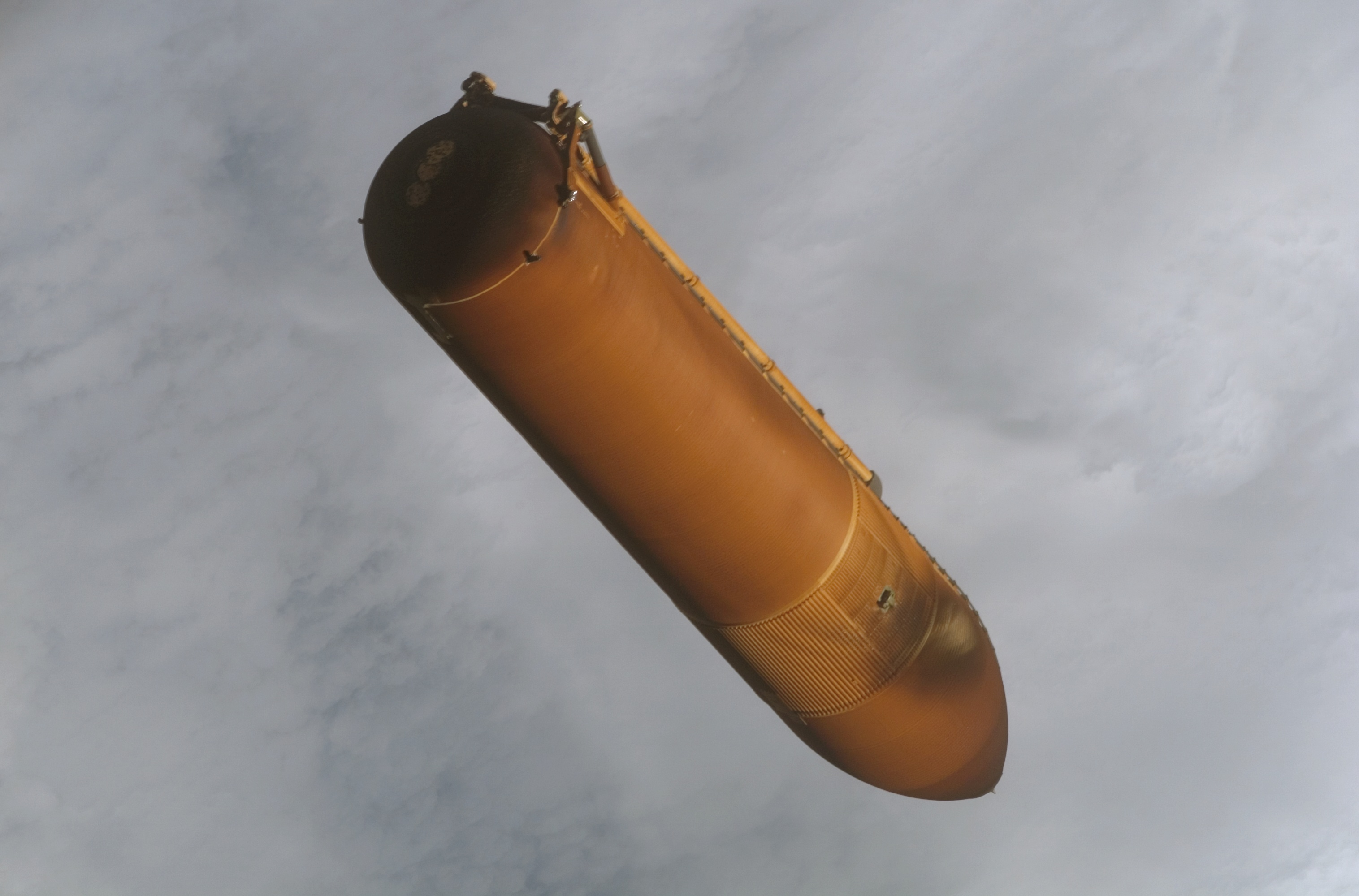 Backdropped against a blanket of gray clouds, the STS-115 external tank falls away from the Space Shuttle Atlantis. A crew member onboard the shuttle recorded the image with a digital still camera. Mission managers and flight controllers on the ground are studying the handheld pictures along with another group of ET separation photos recorded by automatic cameras in the umbilical well.